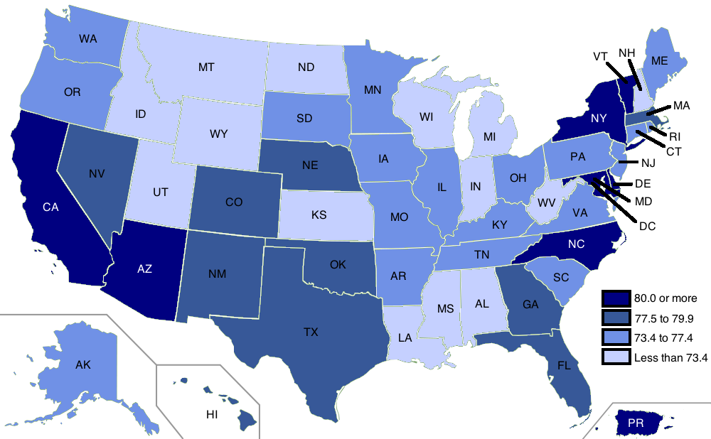 US Gender Pay Gap by state in 2006 according to the Current Population Survey 2007